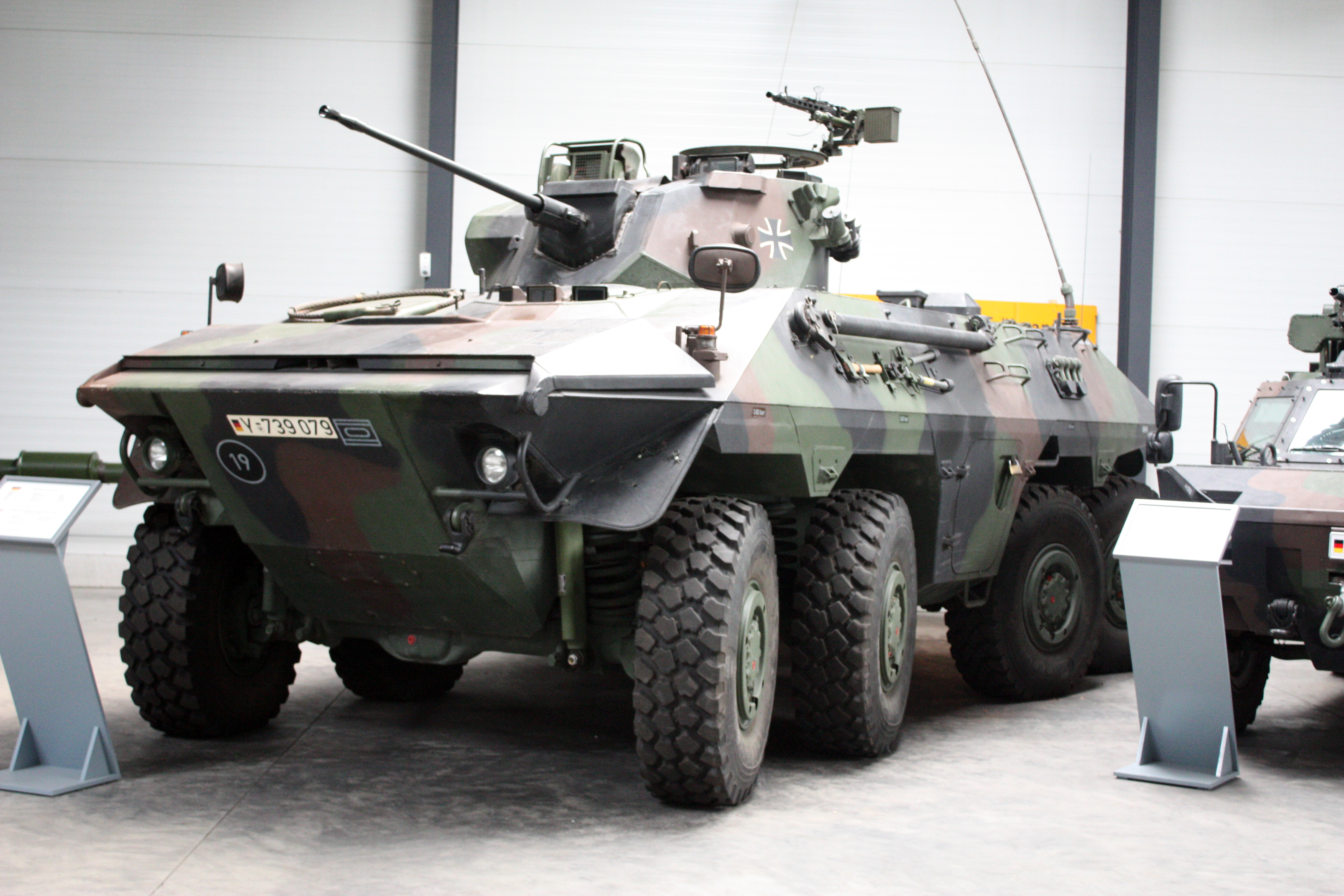 German Tank Museum